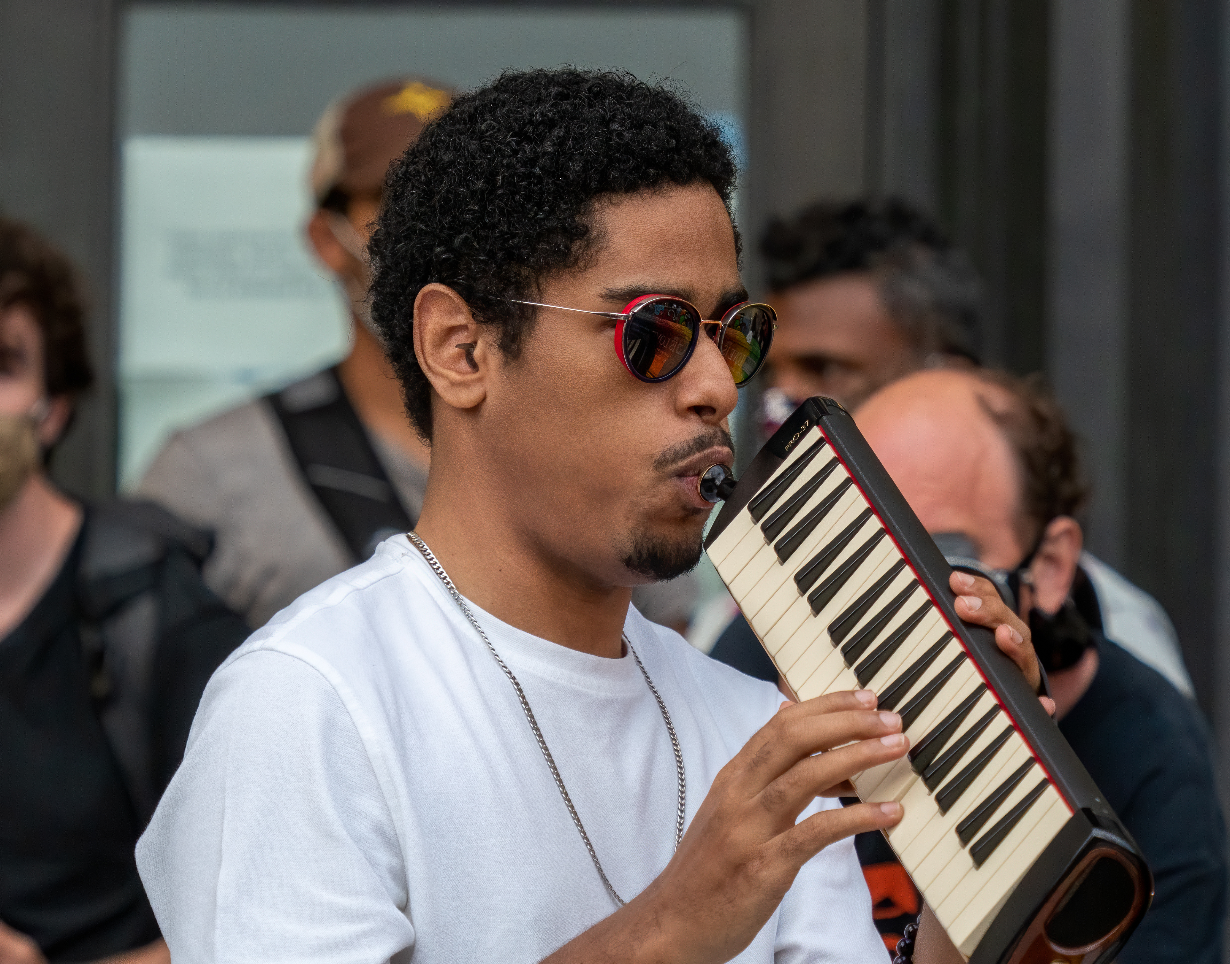 Musicians Jon Batiste and Matthew Whitaker playing piano and melodica for a "Juneteenth celebration + voter registration recital" called "We Are" on June 19, 2020. On the steps of the Brooklyn Public Library in Grand Army Plaza.